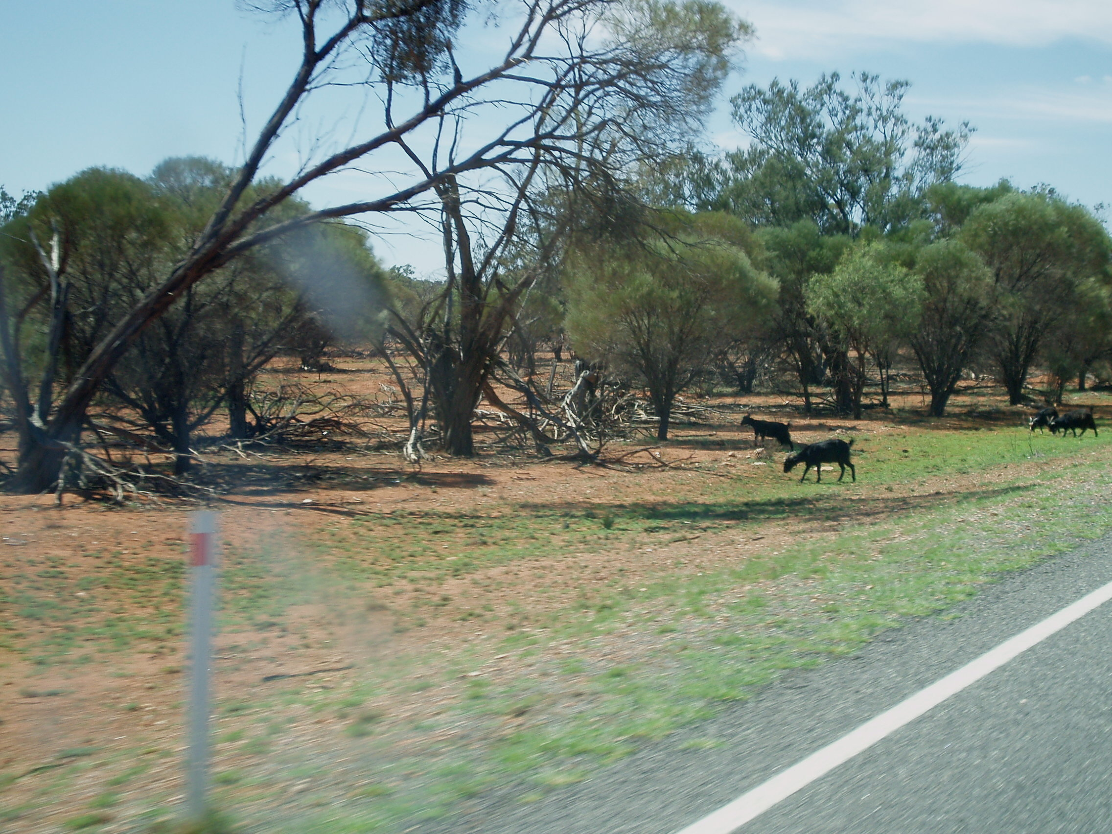 Feral Goats. A long drive through a fairly featureless landscape. However, this IS the Barrier Highway.